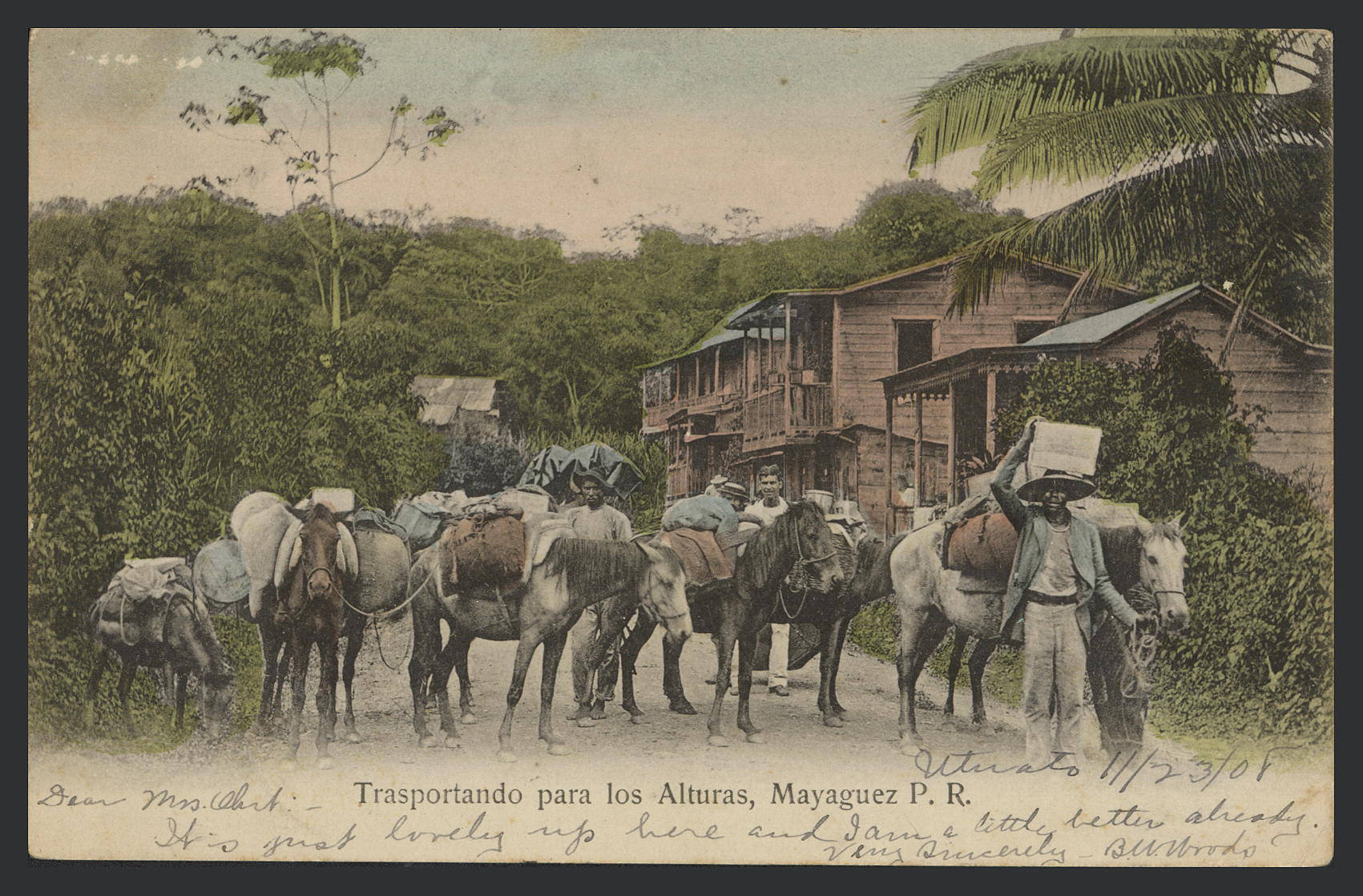 Peasants transporting loads across the hills of Mayagüez, Puerto Rico. Scanned image from a postal card. Campesinos cargando mercancía a caballos, al fondo viviendas en madera. Sello de un centavo con su matasello y timbre que dice: Utuado Nov. 24, 8 am. 1908.